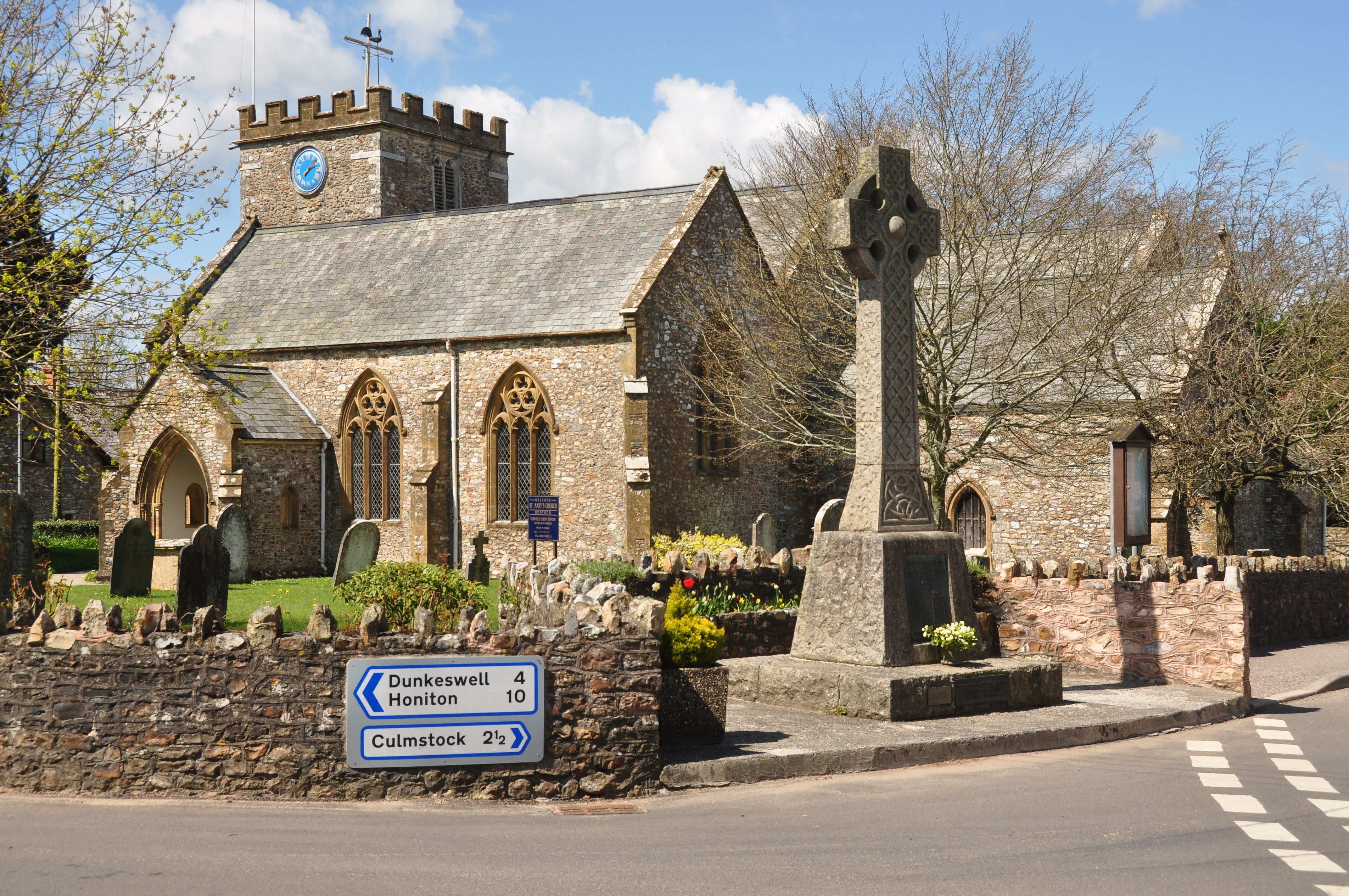 War memorial and St Mary's parish church, Hemyock, Devon, seen from the southeast